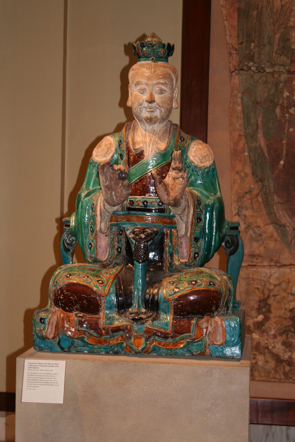 Photos taken at the British Museum - Asian Gallery - Glazed stoneware of a Daoist deity, Ming Dynasty, 16th century China.